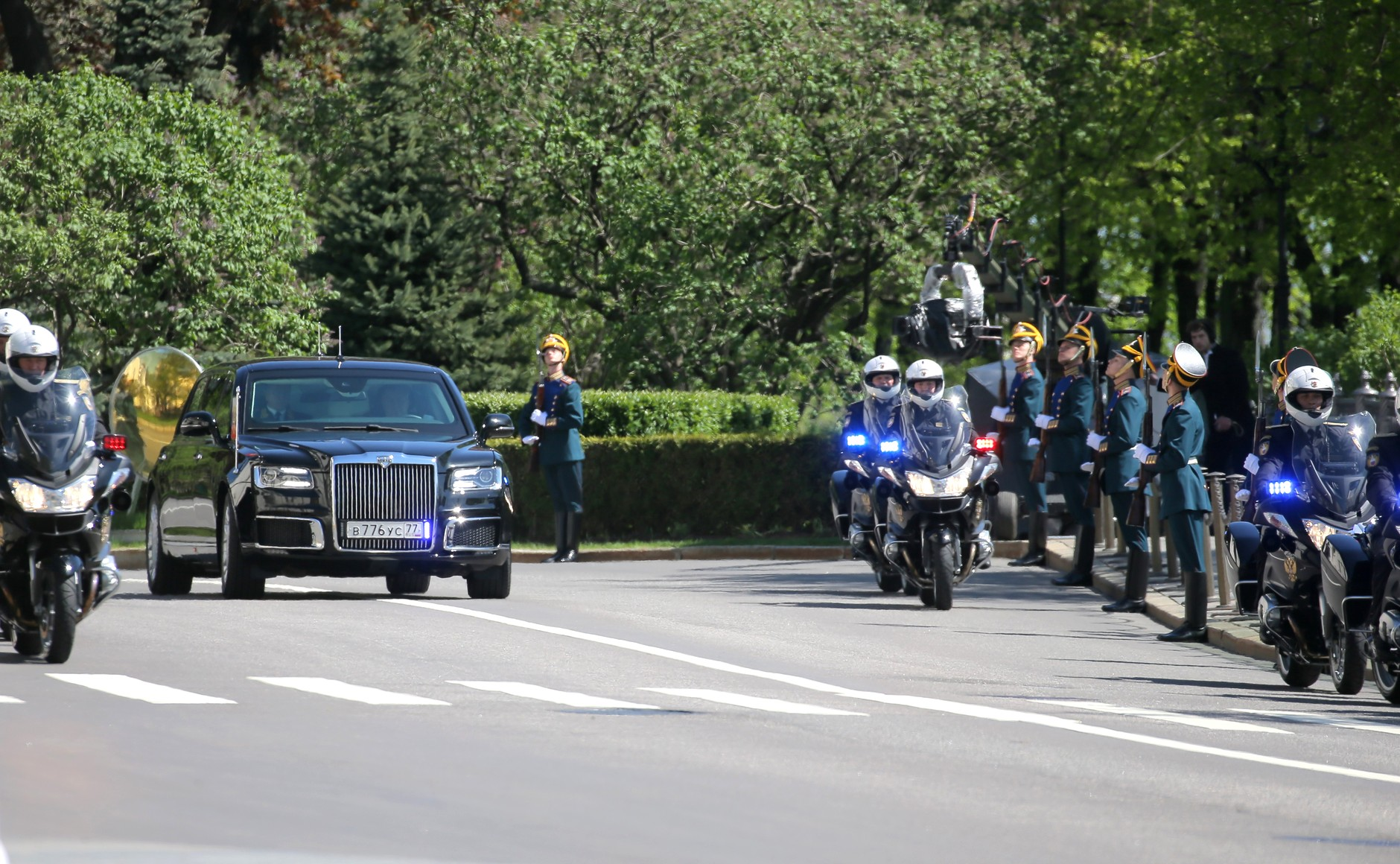 Vladimir Putin has been sworn in as President of Russia (2018-05-07)